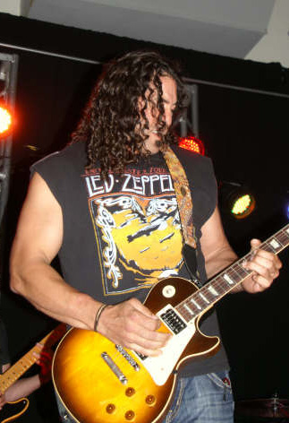 Chuck Palumbo playing Guitar with Three Spoke Wheel.